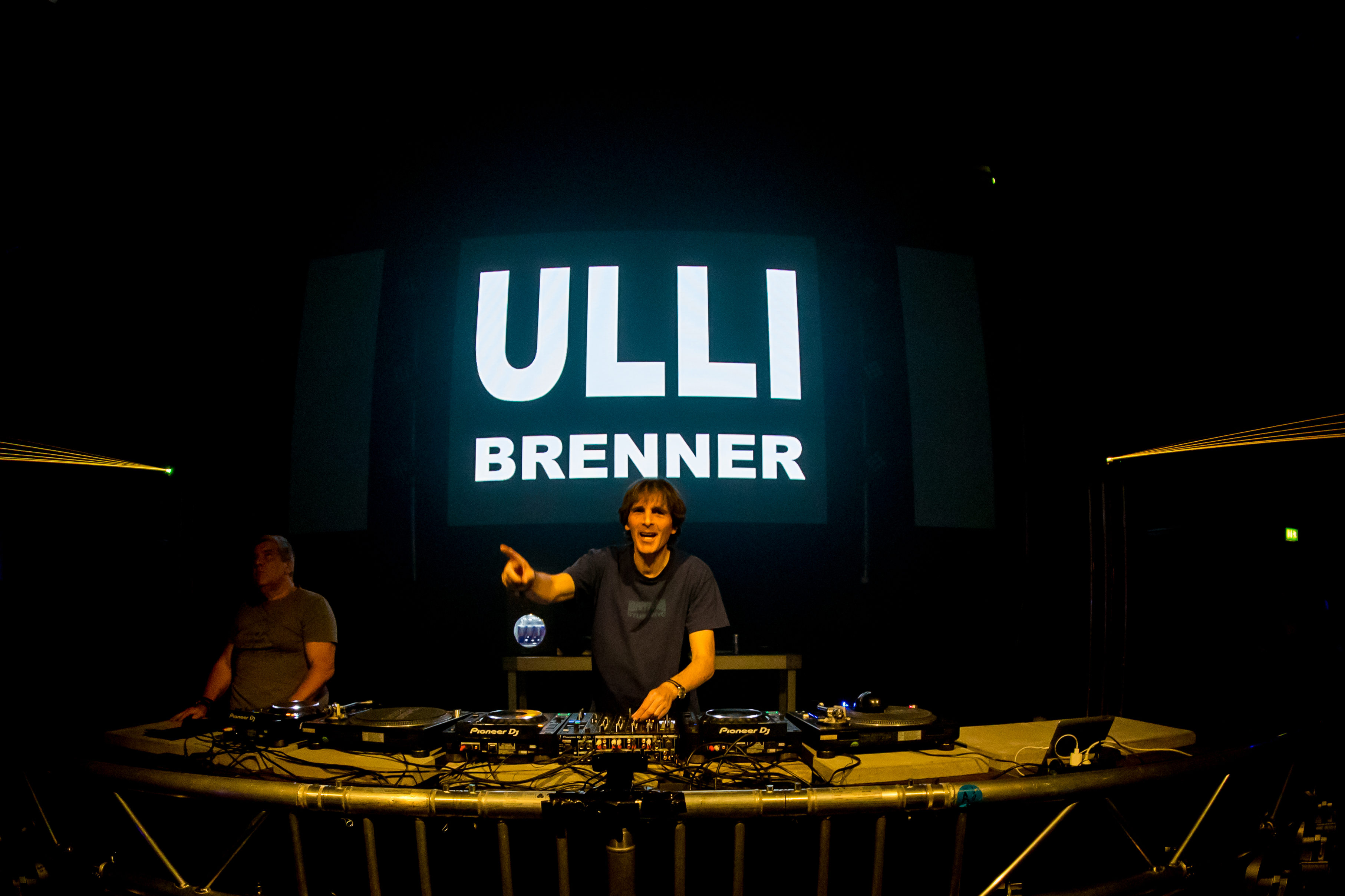 Ulli Brenner during Sunshine Live Retroactive - The 90s Rave at Maimarktclub, Mannheim, Baden-Württemberg, Germany on 2017-04-08, Photo: Sven Mandel